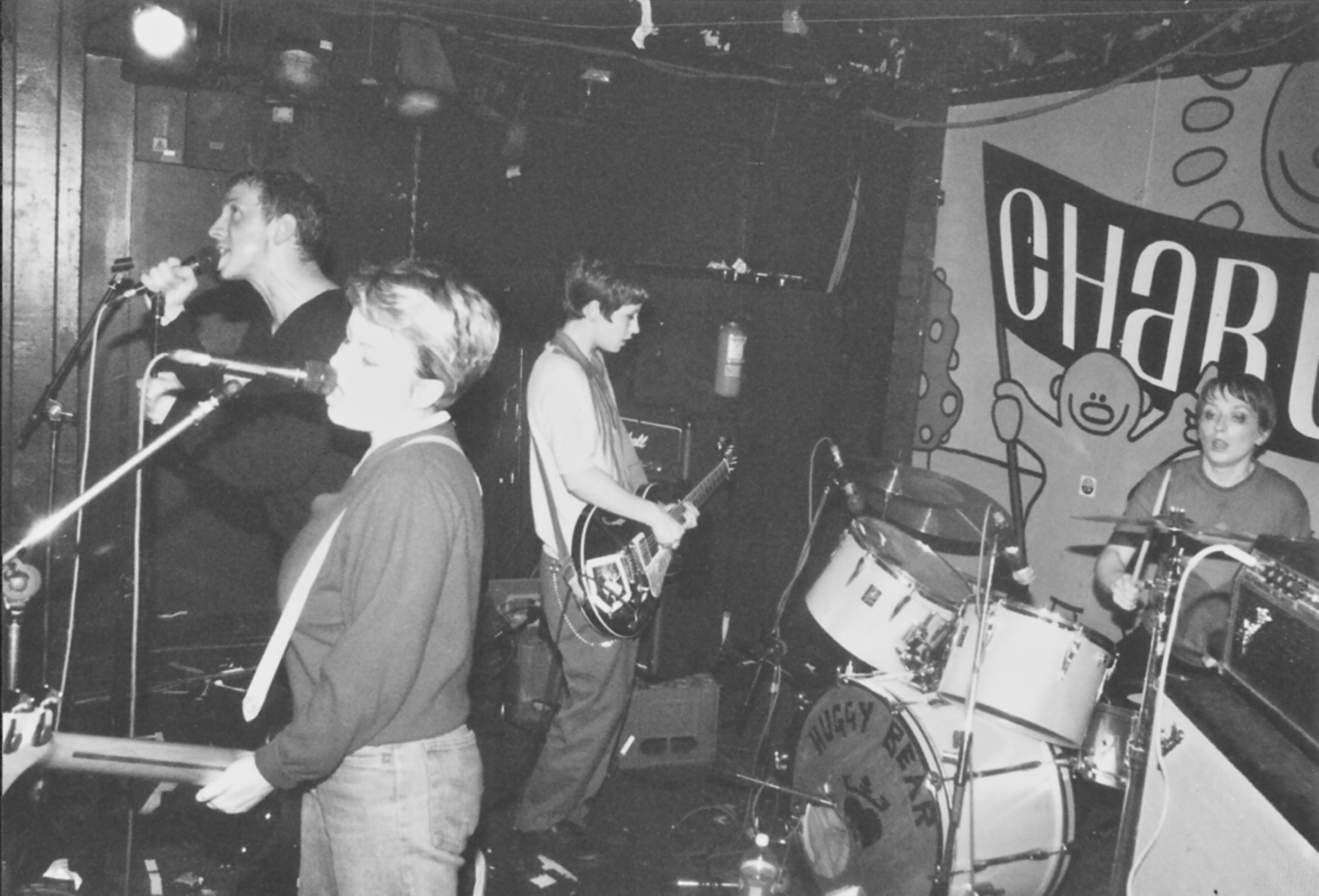 Huggy Bear, the Charlotte, Leicester Twenty years on from the Riot Grrrl themed and final issue of the fanzine Ablaze!, editor Karren wrote on Riot Grrrl's legacy for the Guardian - More neate riot grrrl New neate photos facebook page. More neate photos